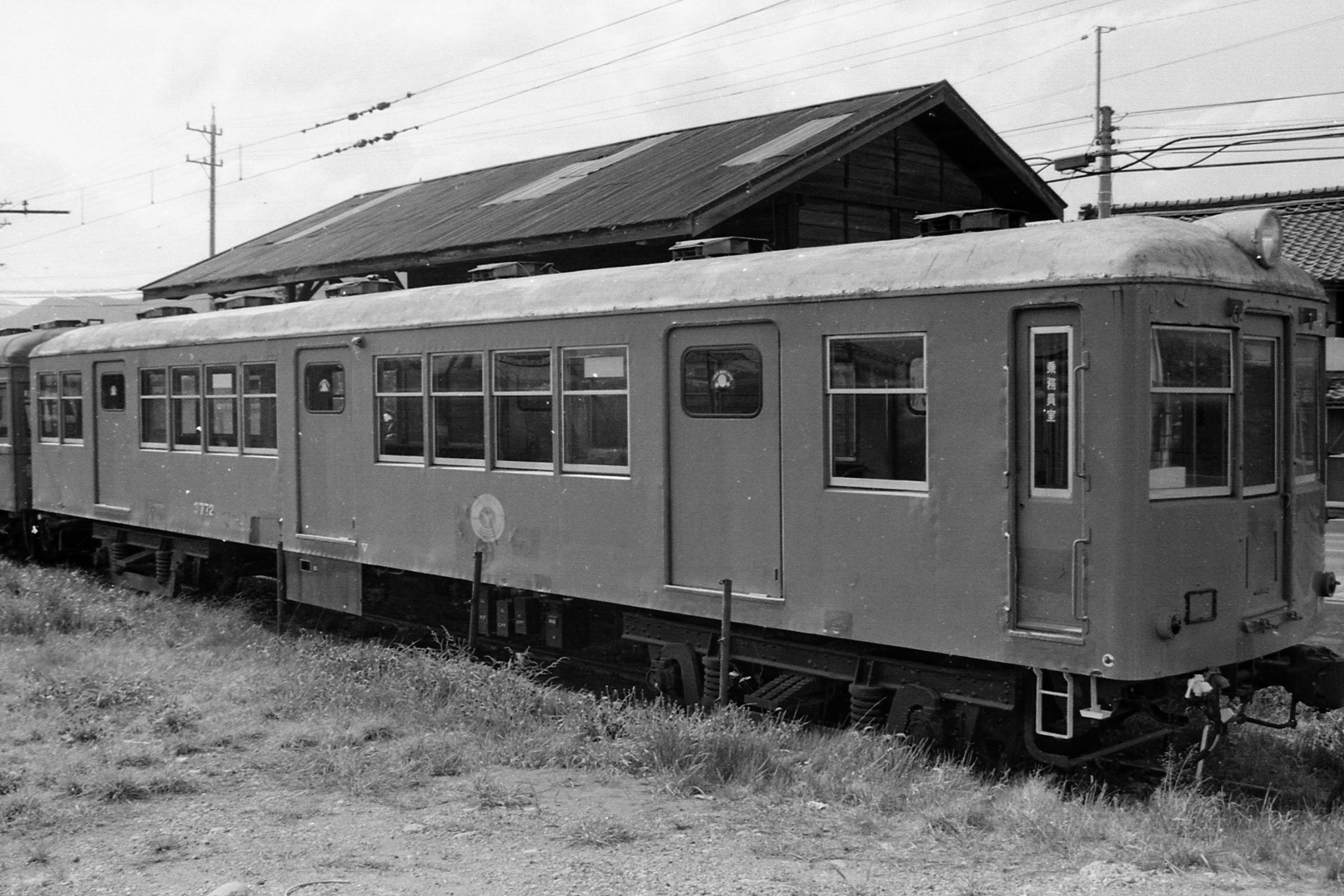 Ueda Kotsu 3772 at Uedahara after its withdrawal from operation